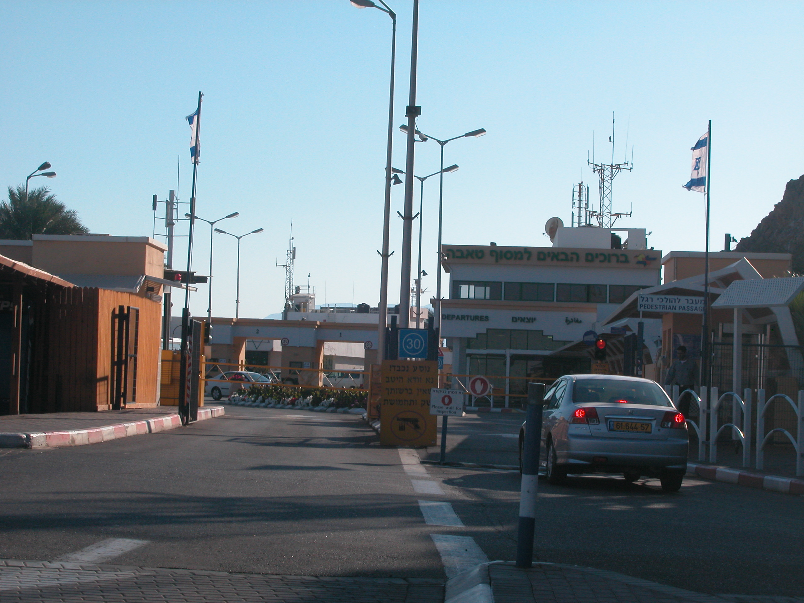 Israeli side of the Taba Border Terminal in Eilat, Israel